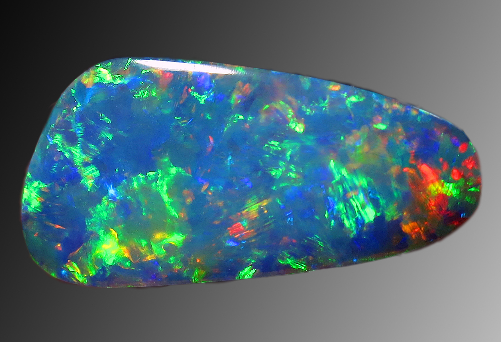 Coober Pedy crystal opal from Dead Horse Gully Field with novaculite backing (doublet).